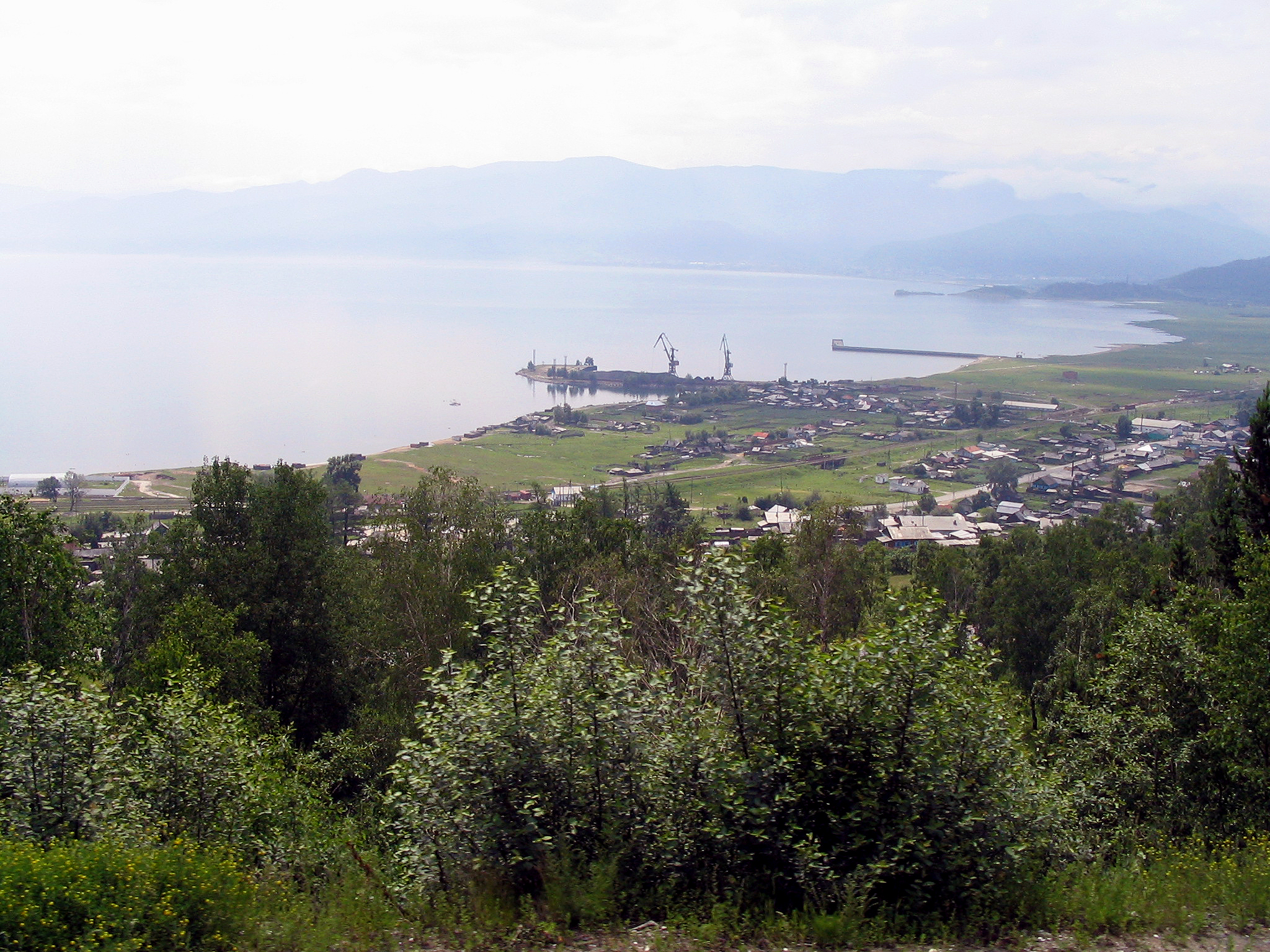 Picture of Kultuk, Russia taken from the Trans-Siberian railway. Photo by me 7/06, released into public domain.